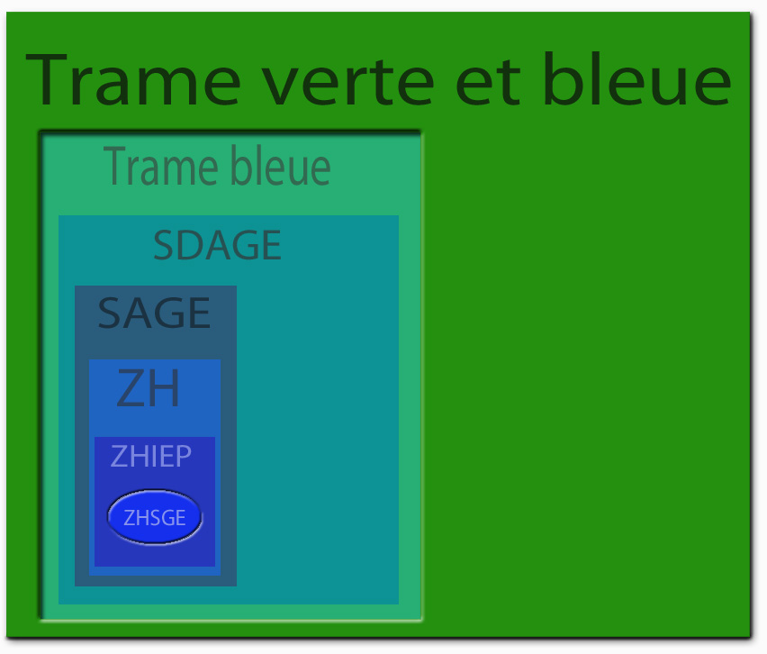 In France, Act “Grenelle II” (2010) confirms green and blue ecological network. In this frame the blue frame includes wetlands. Wetland are managed in “SDAGEs” (SDAGE (Schémas directeurs d'aménagement et de gestion des eaux ; Master plans for development and water management). In SDAGE, rivers and their catchments are in a SAGE ; (Schéma d'aménagement et de gestion des eaux ; Water use planning and water management). Another law, the law on the development of rural areas ("DTR", February 23, 2005) requires local communities and State to stop funding operations adverse to wetlands. Chapter III of this law targets the restoration, preservation and enhancement of wetlands, considered as "public interest" with new definitions of those specifying the Water Act of 1992 through an Order in Council of State and criteria of the interministerial decree of 24 June 2008 and implementing Circular of 25 June 2008. This law (DTR) prioritizes two "levels" of wetlands: 1) les Zones humides d'intérêt Environnemental Particulier (Wetlands Environmental Interest Private ; or ZHIEP) are those the maintenance or restoration of interest for integrated river basin management side or have a value tourism, ecological, landscape, and hunting. In these ZHIEP the administrative authority, in consultation with local stakeholders, should establish sustainable programs of action to restore, preserve, manage and develop wetlands. These programs specify practices conducive to wetlands, some of which may be made mandatory and receive funding 2) les Zones humides d'intérêt Environnemental Particulier (Wetlands for the Strategic Water Management or ZHSGE) are those that contribute significantly the protection of drinking water resources or the goals of SAGE for the good water status.